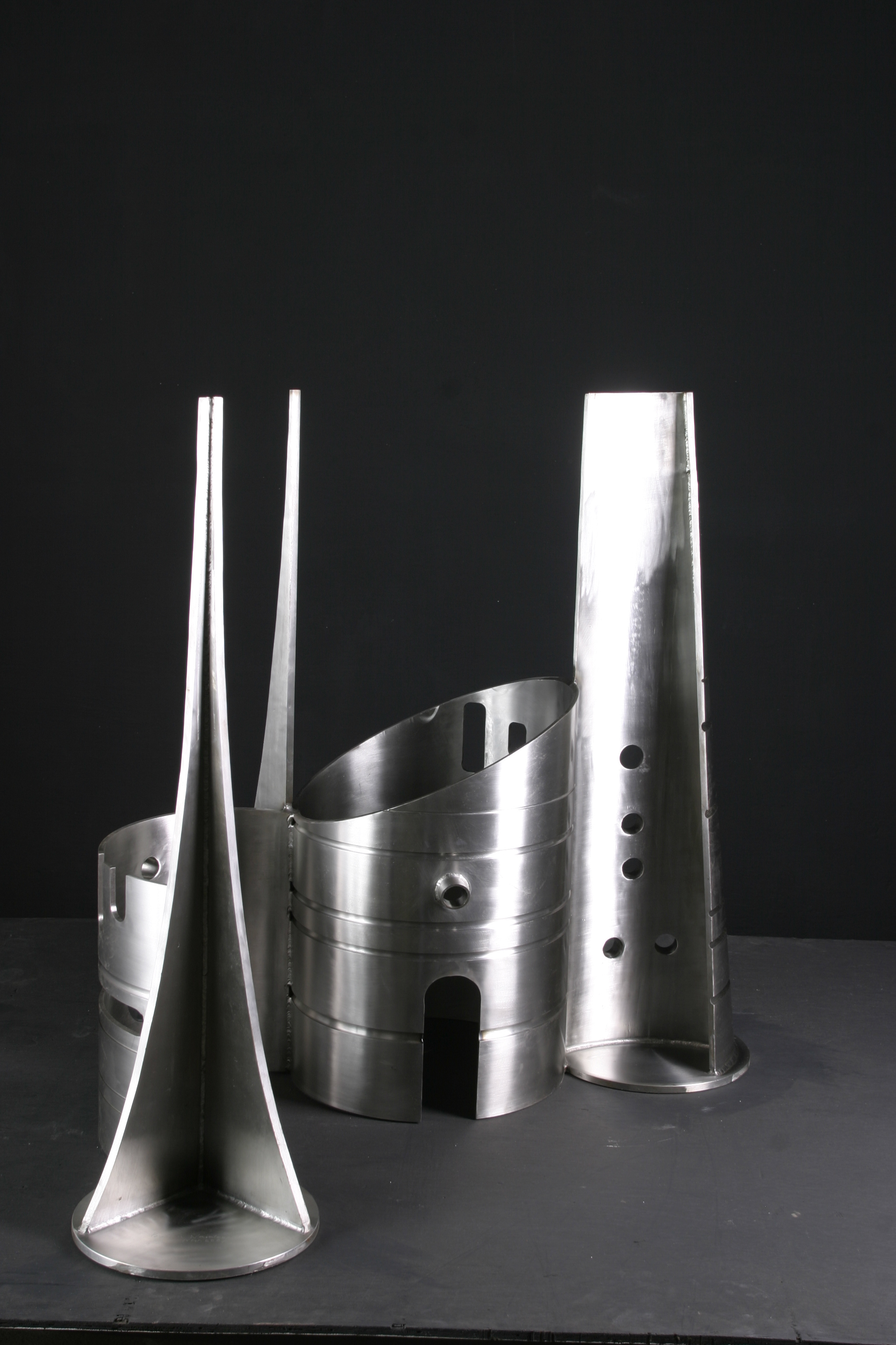 It depicts a sculpture made by him: 'Poetry in architecture', 75x64x44 cm.